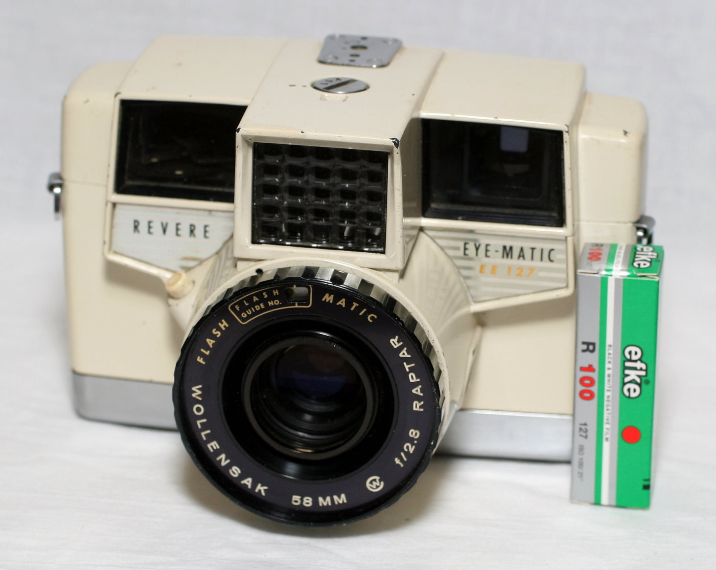 With Efke 127 film box for scale. c1958 127 film rangefinder. 12 4x4cm images per roll. 58mm f/2.8 Wollensak lens. Single shutter speed but automatic aperture via selenum cell meter (works!). Early "guide number" flash implementation. Single stroke lever wind with frame counter (no red window!). Shutter and meter were stuck originally.